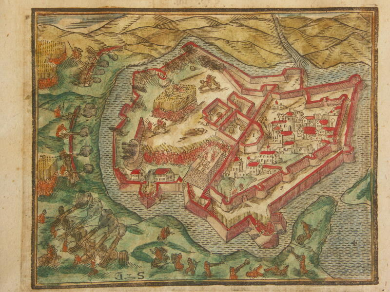 Münster's sights and views-- some examples from different editions (many with modern hand-coloring drawing?)